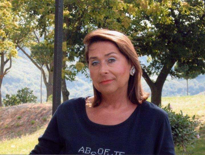 This is a picture of the italian writer Andreina Chiari Branchi, made in 2016 nearest to Parma in Italy.